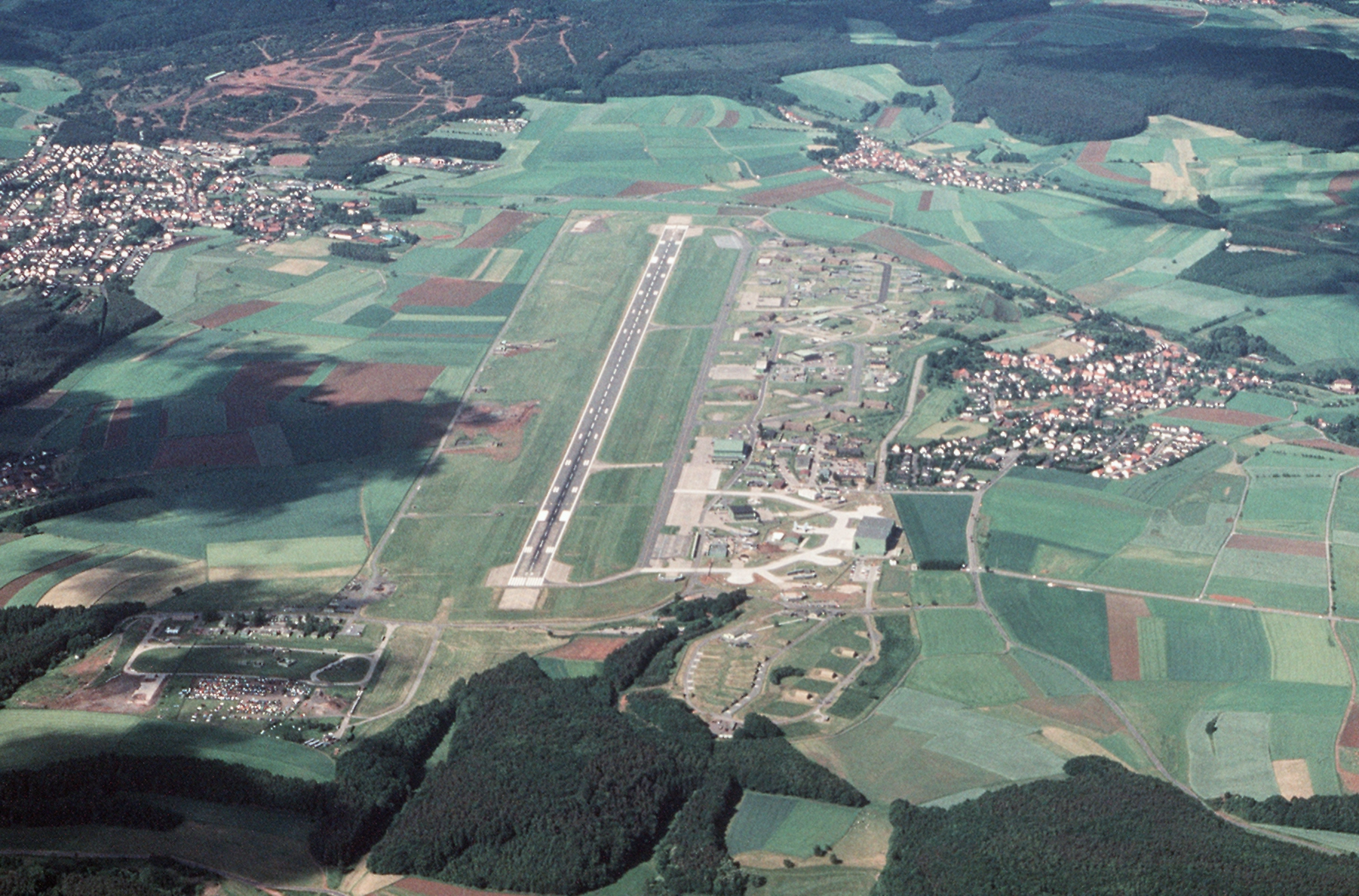 An aerial view of the U.S. Air Force Sembach Air Base, Rheinland-Pfalz, Germany. Note: In the official description, the air base is wrongly identified as Spangdahlem Air Base. Check the satellite photo to see that Sembach has not changed much since the 1980s. Easiest to identify is the large hangar.